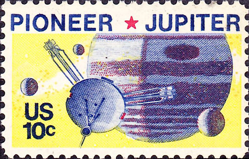 Pioneer_Jupiter_1975_Issue-10c.jpg